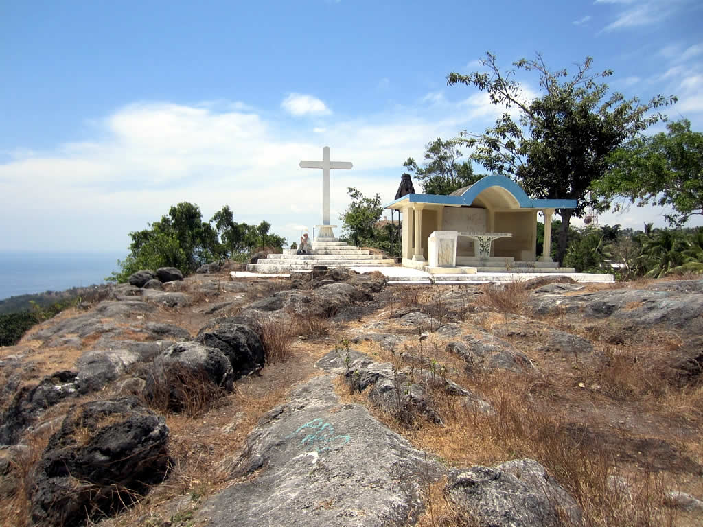 This hilltop cross overlooking Baucau provides excellent views.